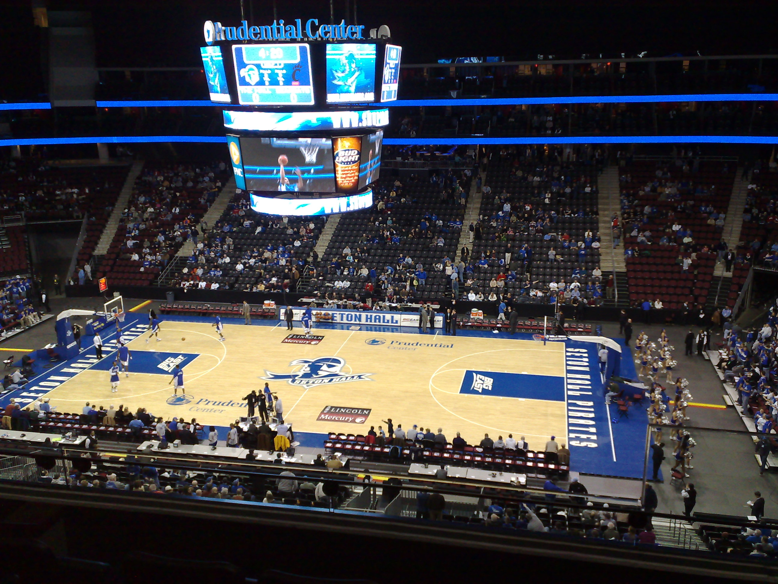 Seton Hall Game in Prudential Center